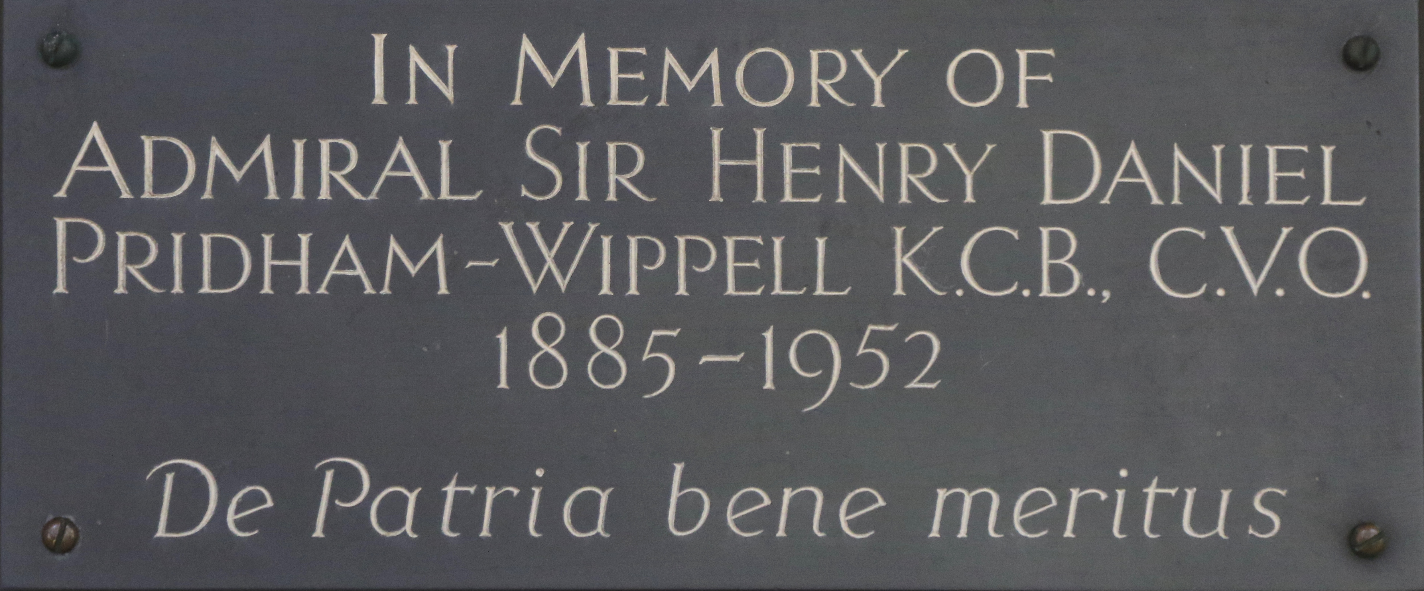 Admiral Sir Henry Daniel Pridham-Wippell KCB CVO. 1885 - 1952